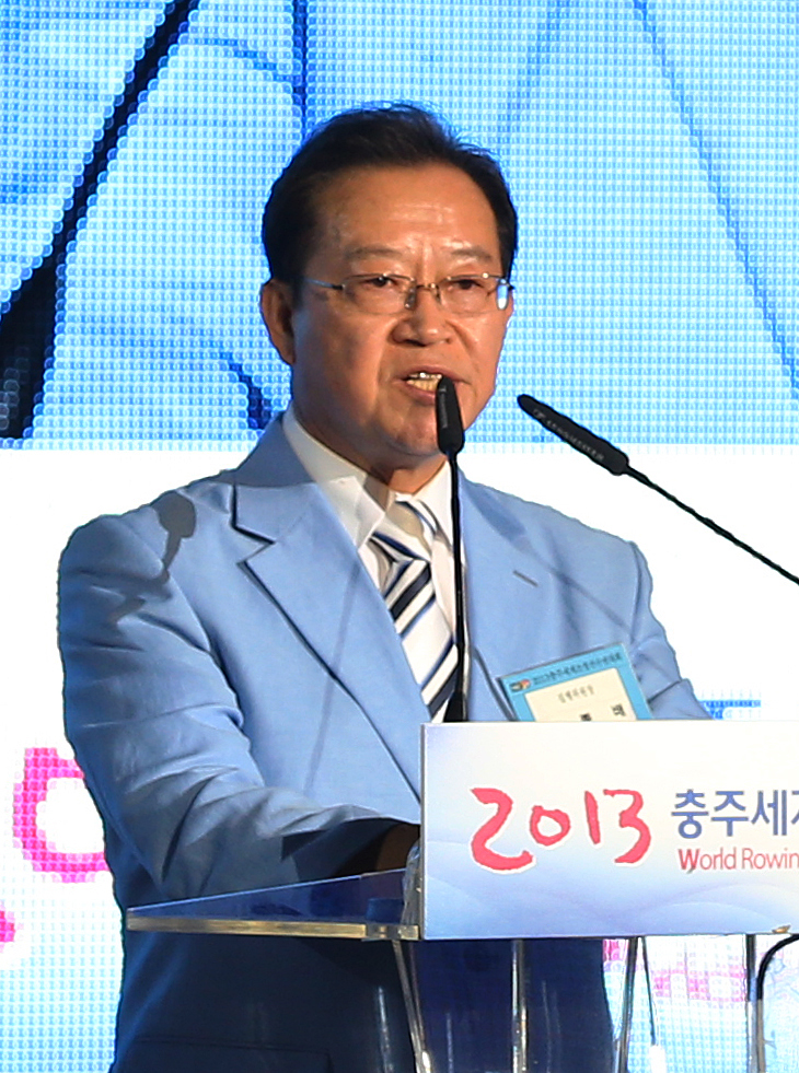 The 2013 World Rowing Championships. Chungju City Mayor Lee Jong-bae delivers speech at the Opening ceremony of The 2013 World Rowing Championships.